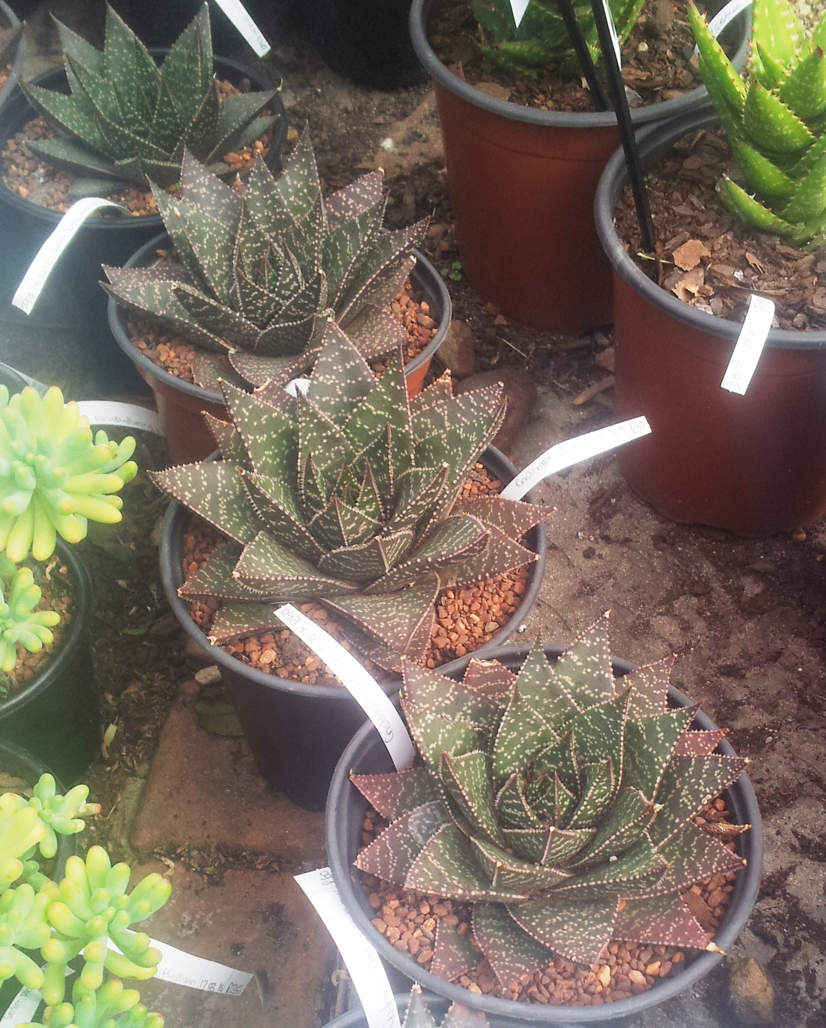 Gasteraloe Black Giant - Cape Town